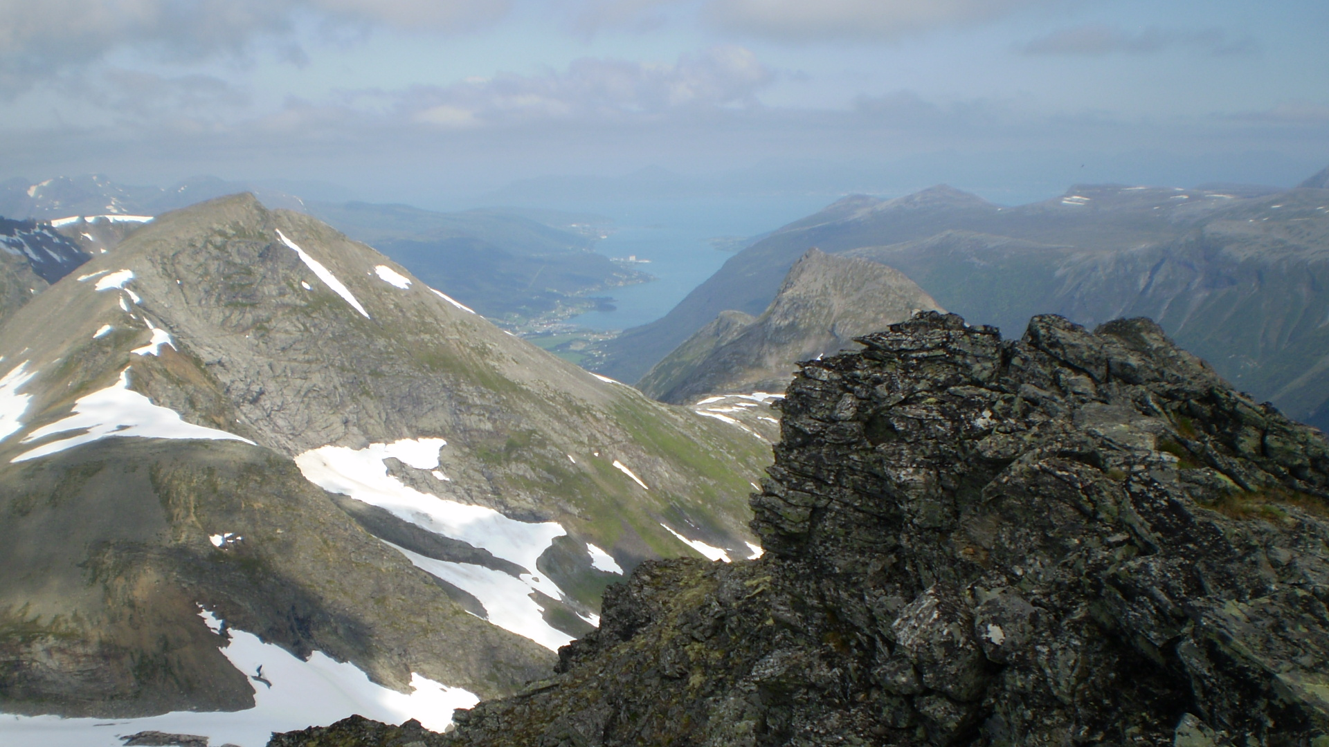 Mountains of Norway